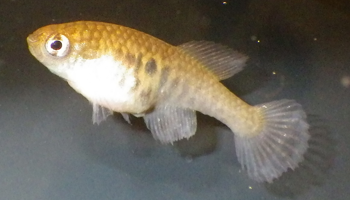 Female tank-raised Hypsolebias magnificus Malhada